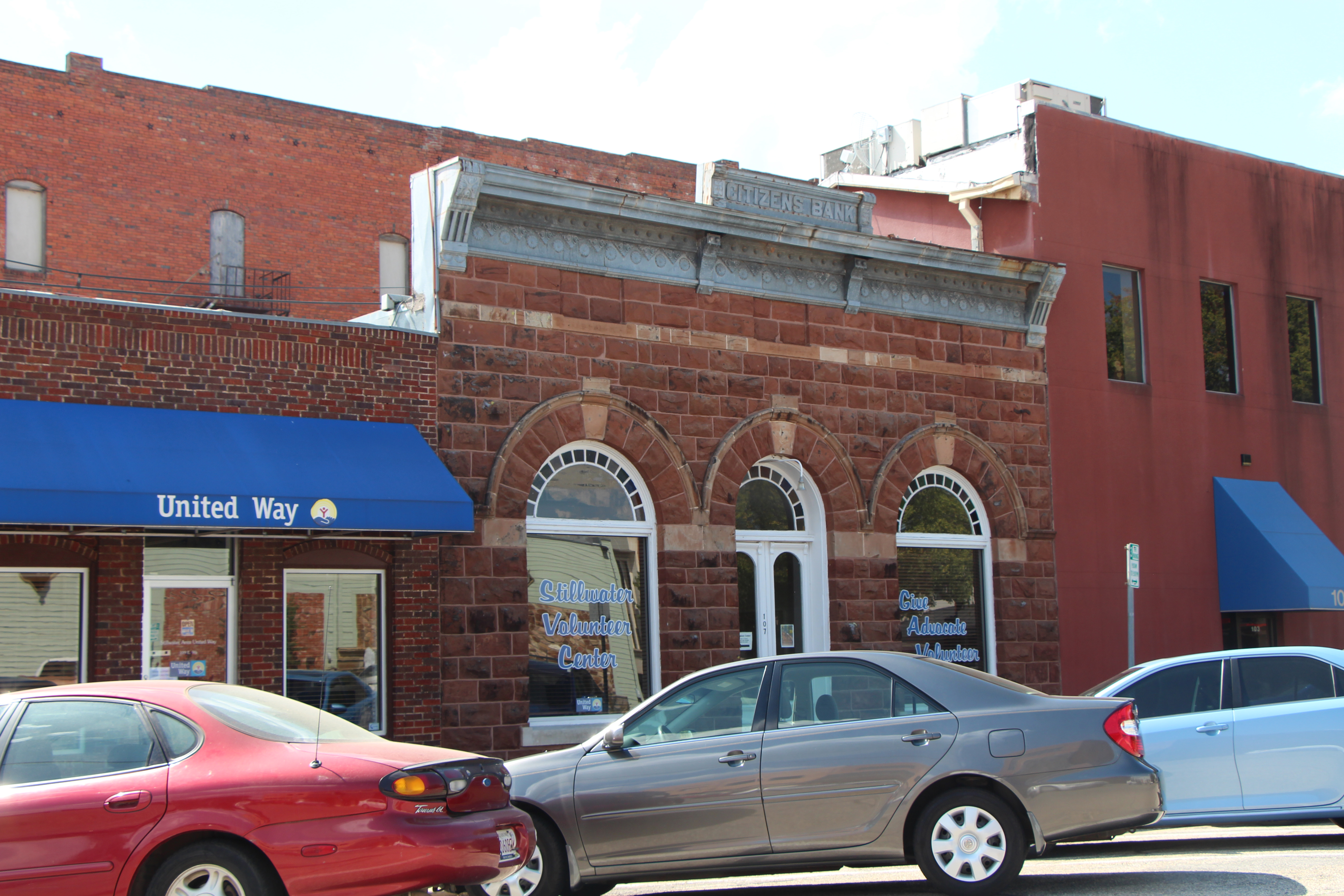 Citizens Bank Building, 107 E. 9th St. Stillwater